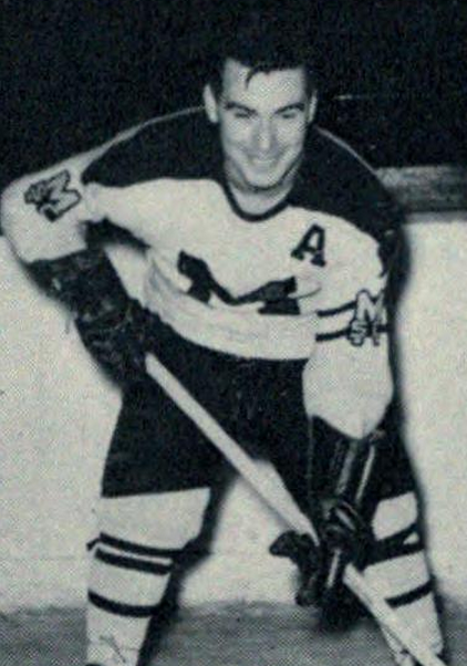 Bob Sabourin, circa 1952